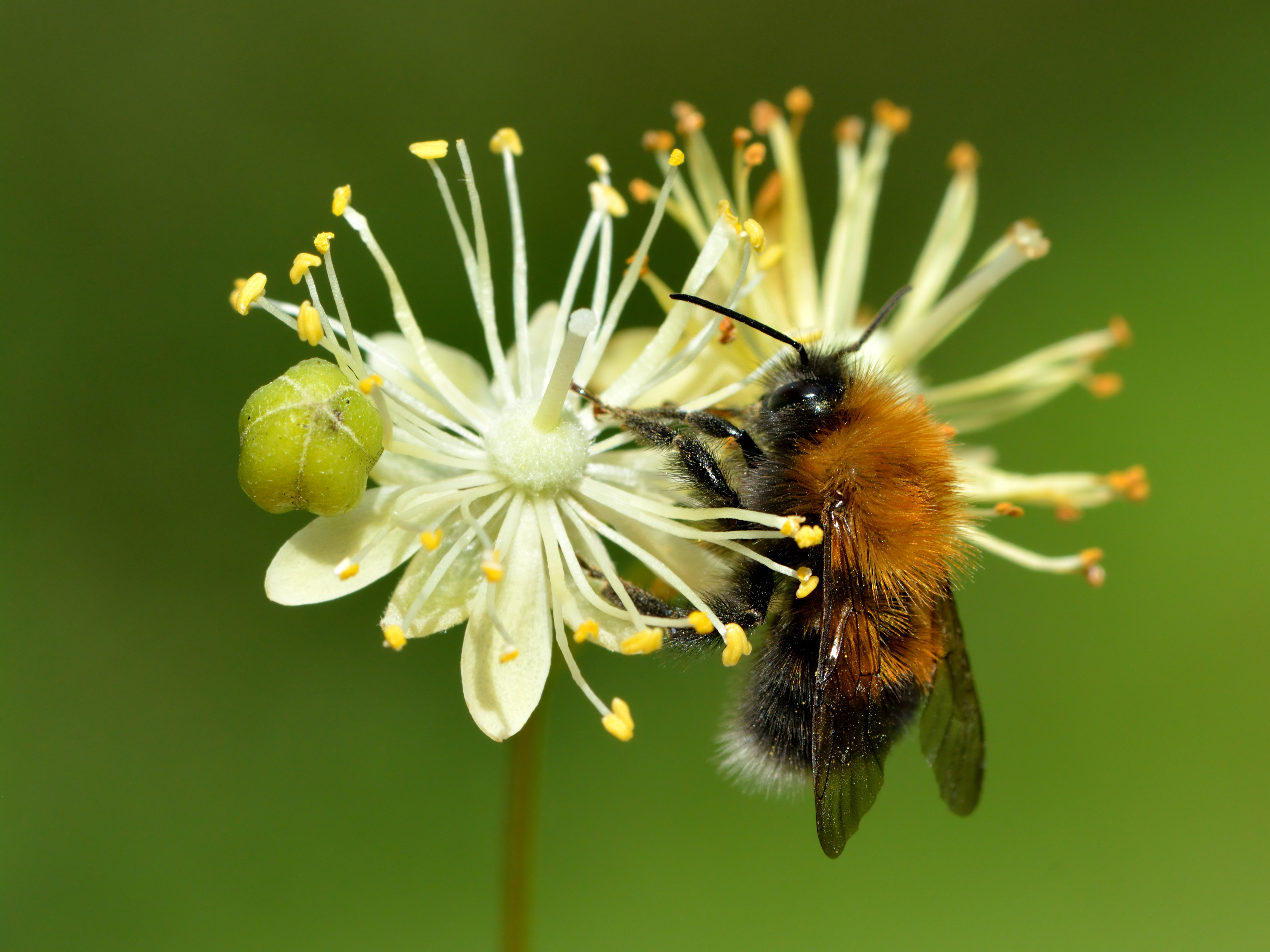 Tree bumblebee drone (Bombus hypnorum) on the flowers of small-leaved lime (Tilia cordata). Keila, Northwestern Estonia.